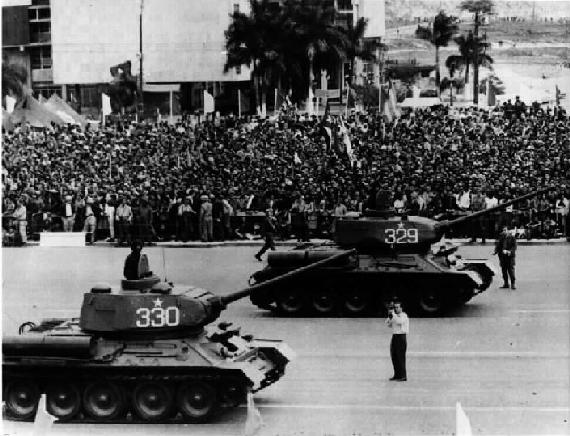 Cuban T-34 tanks on parade in Havana, 1961.